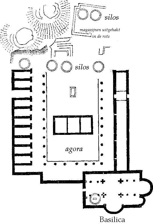 Agora of Antiphellos, Lycia (Turkey).